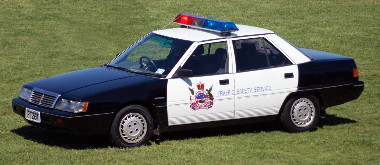 1990–1991 Mitsubishi V3000 Executive sedan (Ministry of Transport), photographed at the Feilding Armed and Emergency Service Day, at Manfeild Autocourse, New Zealand.